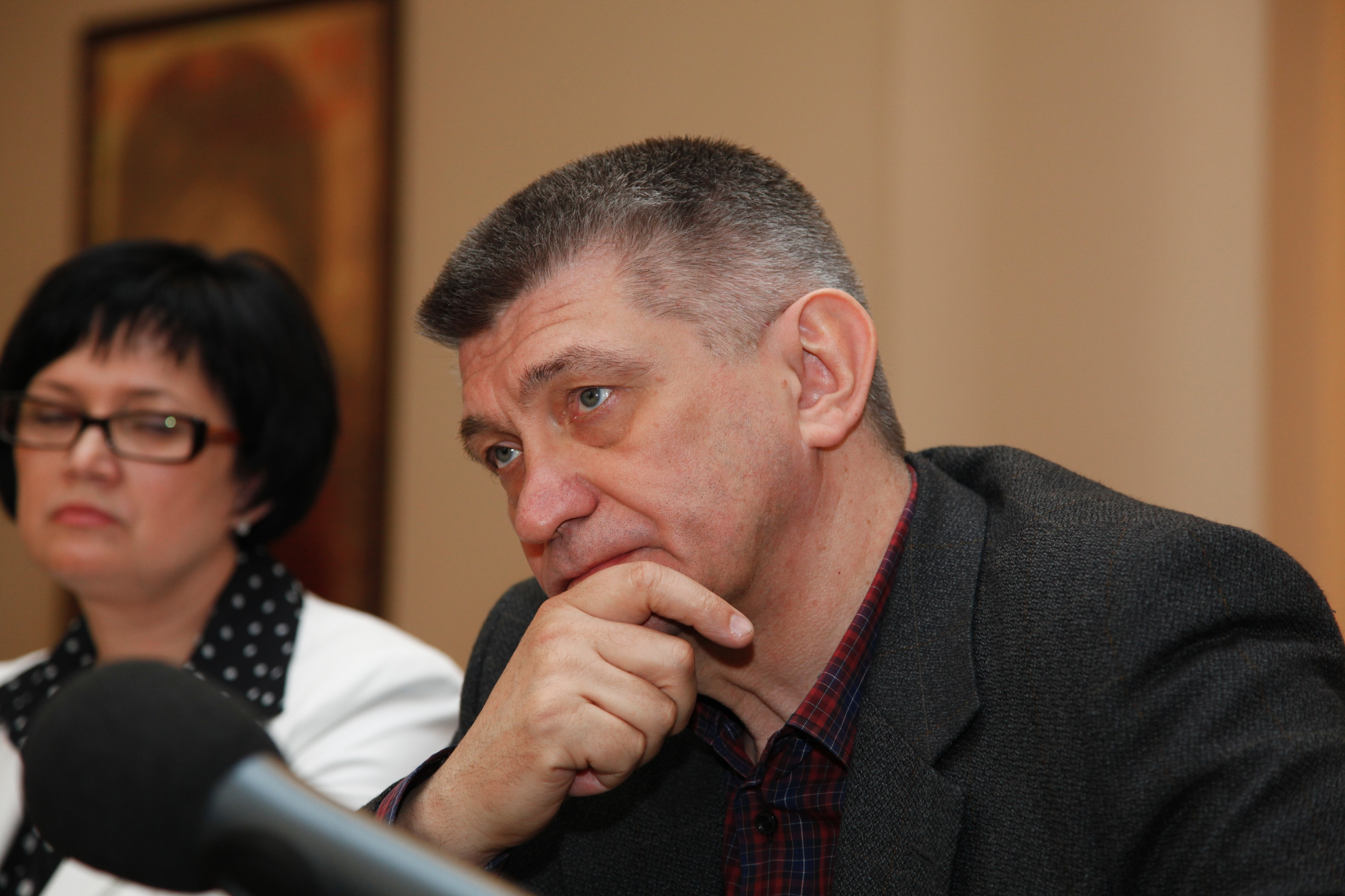 Alexander Sokurov in Volgograd.